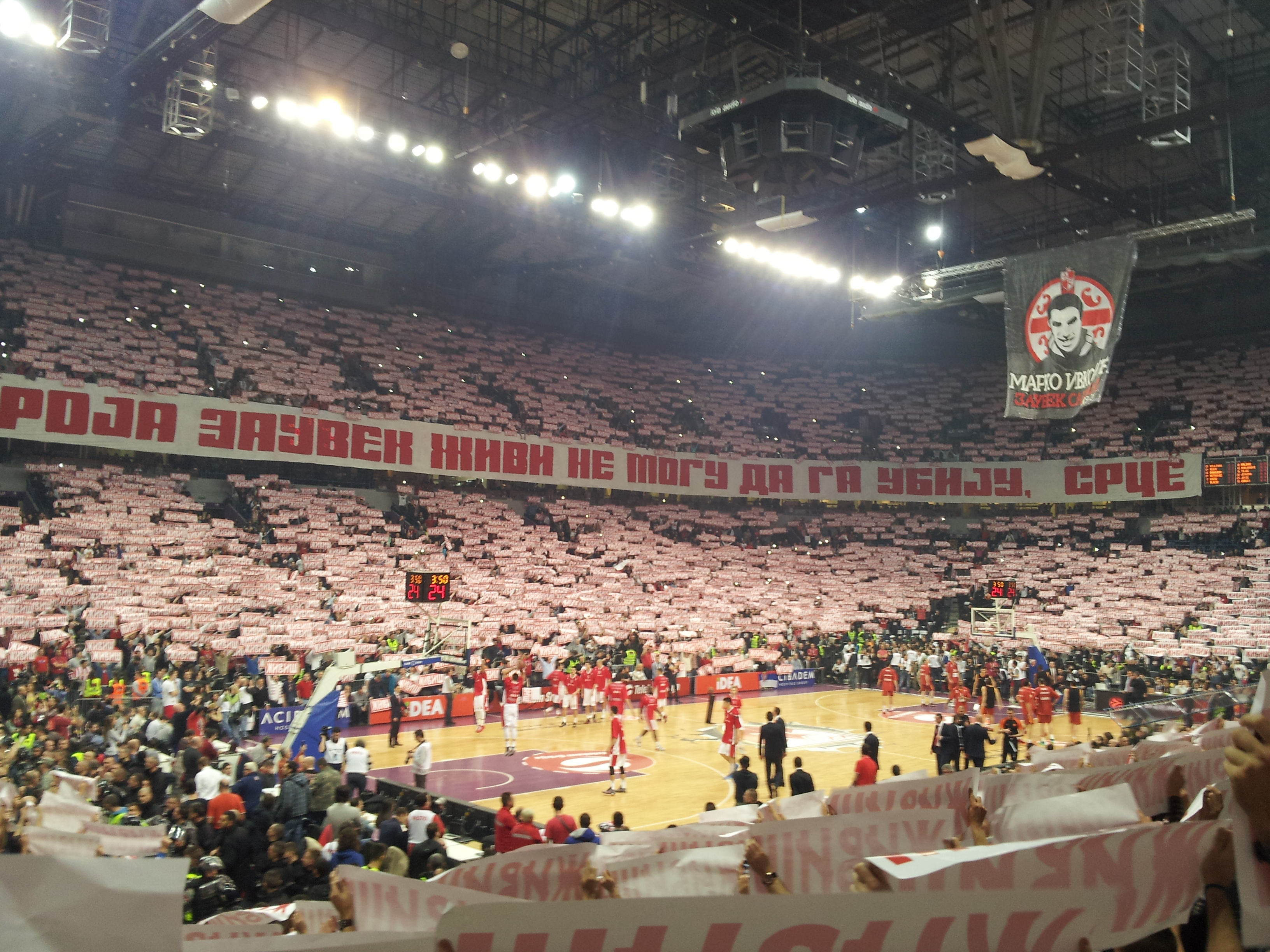 Euroleague game Crvena zvezda - Galata, Belgrade Arena